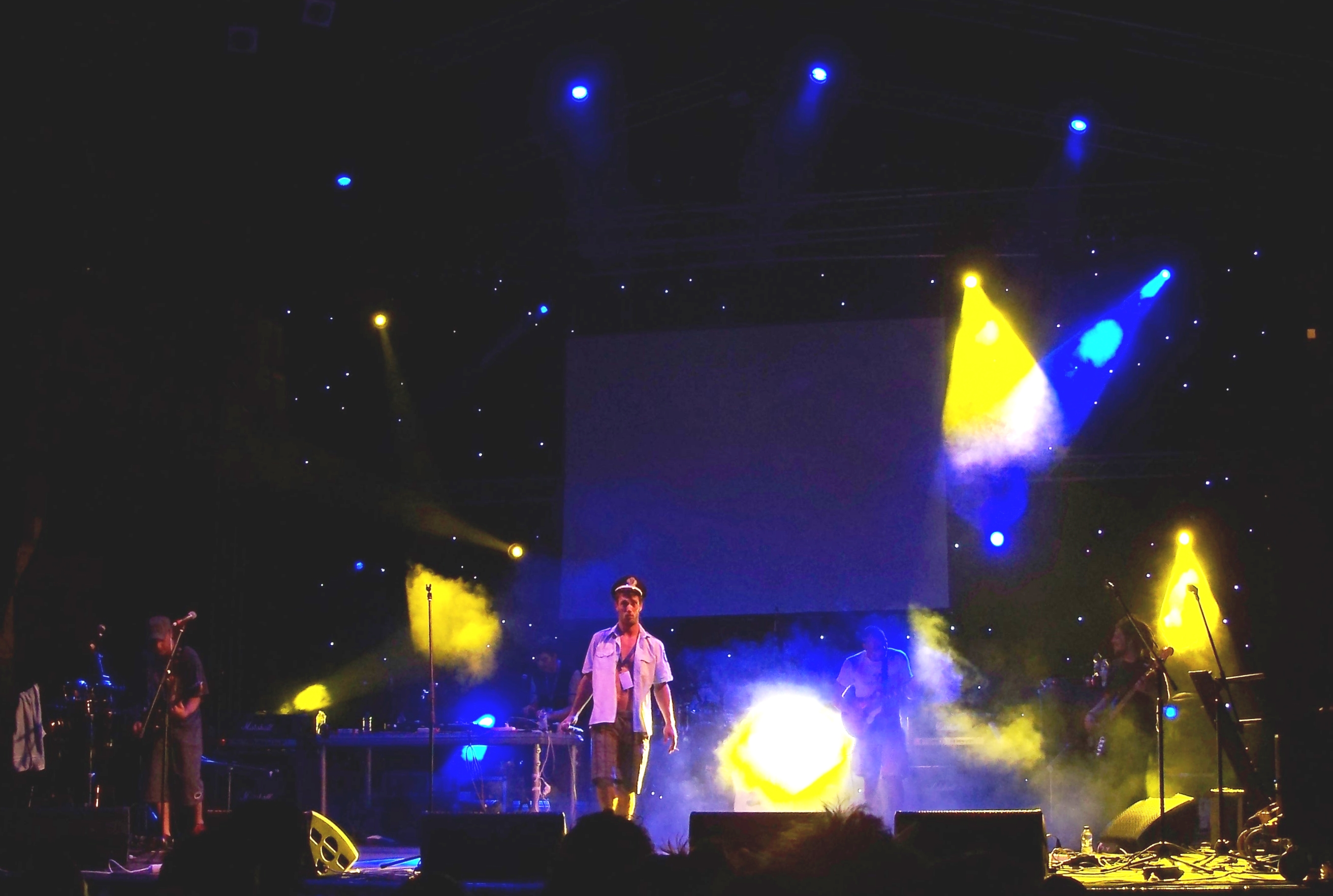 Greek hip-hop group Rodes (Ρόδες) live in Athens June 2007 for the European Day of Music.